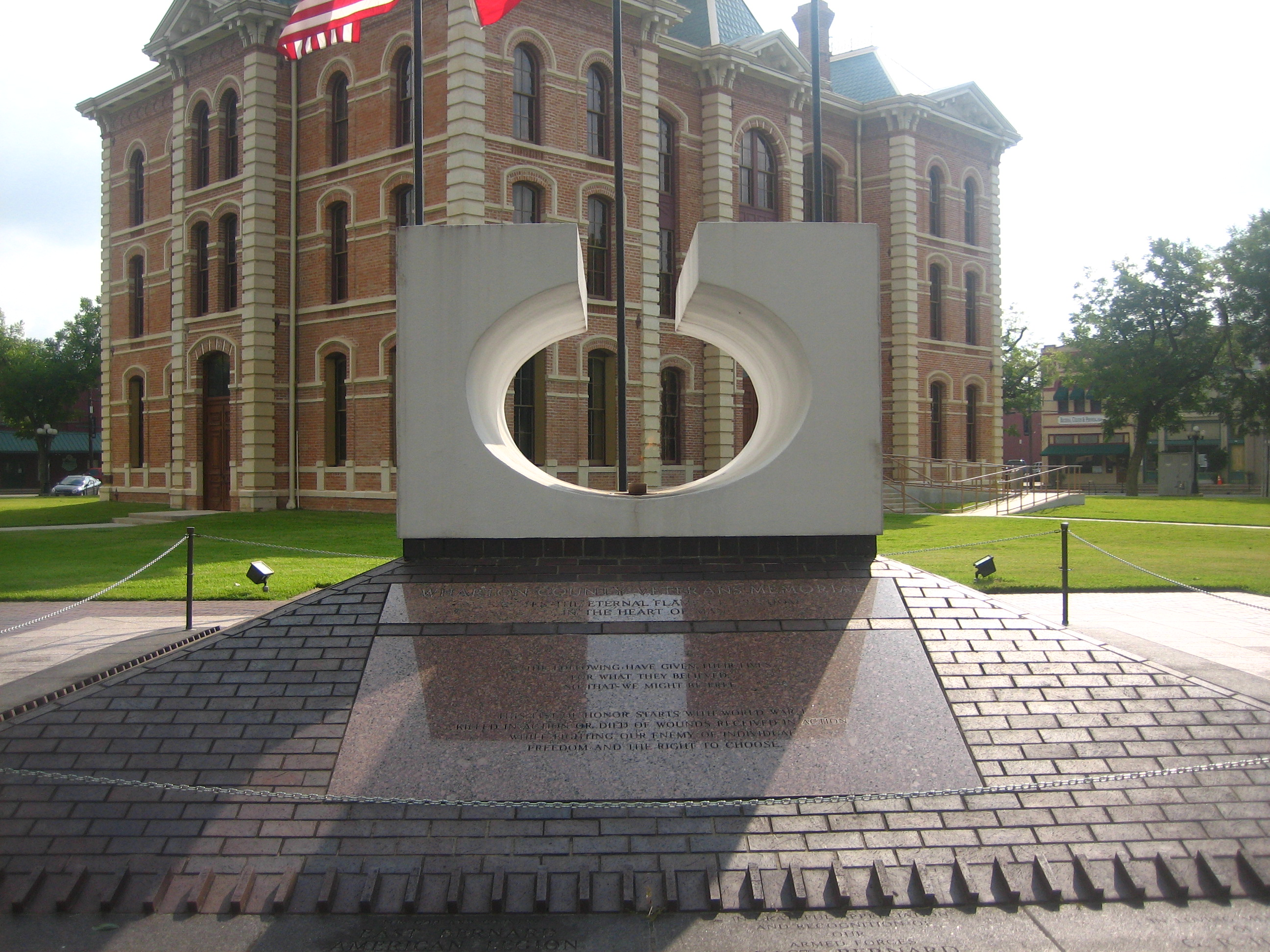 I took photo on July 31, 2008.Billy Hathorn (talk) 18:52, 7 September 2008 (UTC)